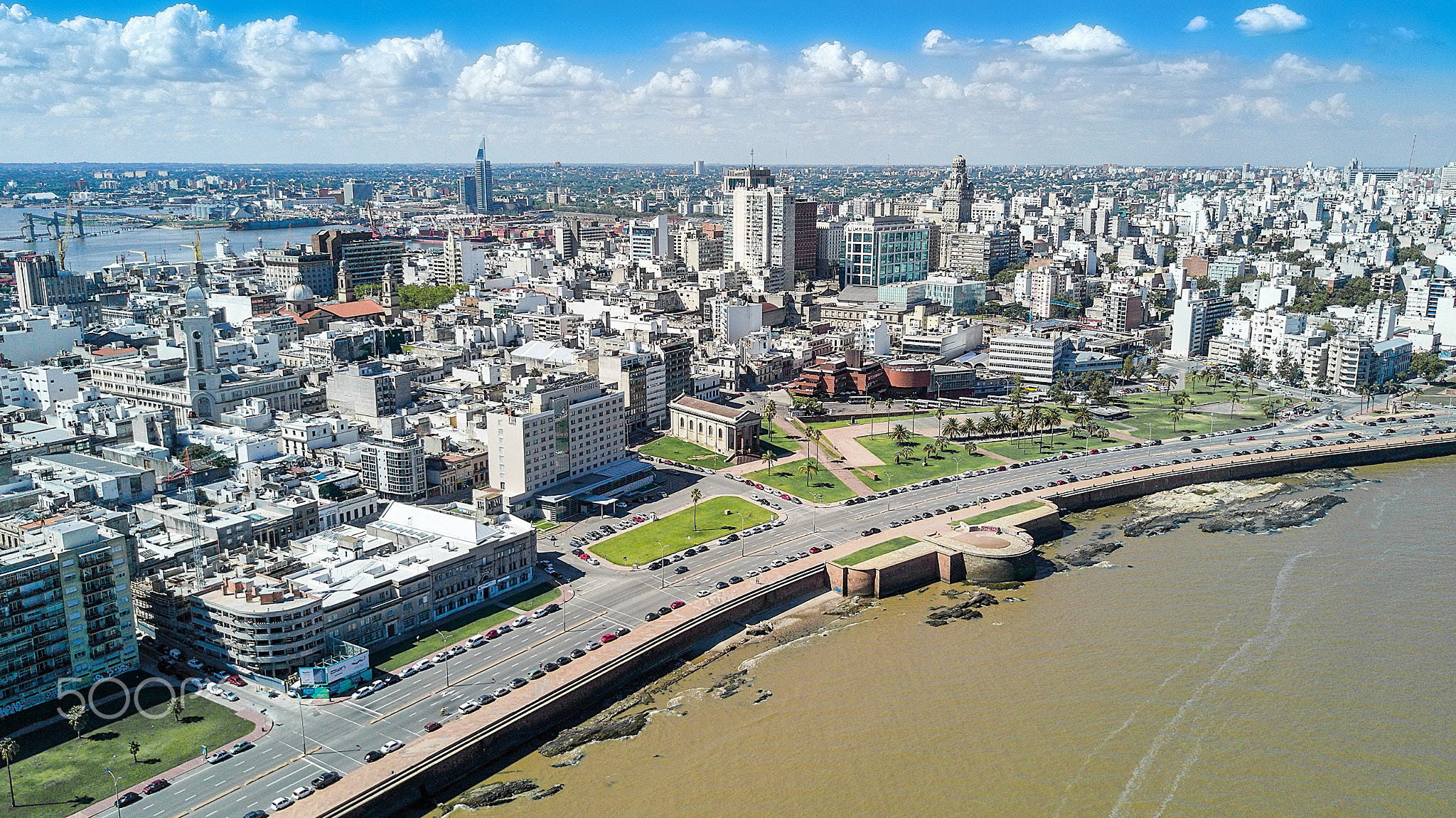 500px provided description: Cubo del Sur, Rambla Montevideo Video on youtube: [#sky ,#city ,#sea ,#street ,#water ,#beach ,#travel ,#blue ,#sun ,#light ,#clouds ,#urban ,#architecture ,#tree ,#cityscape ,#rocks ,#summer ,#building ,#beautiful ,#white ,#aerial ,#green ,#skyline ,#Mavic pro]